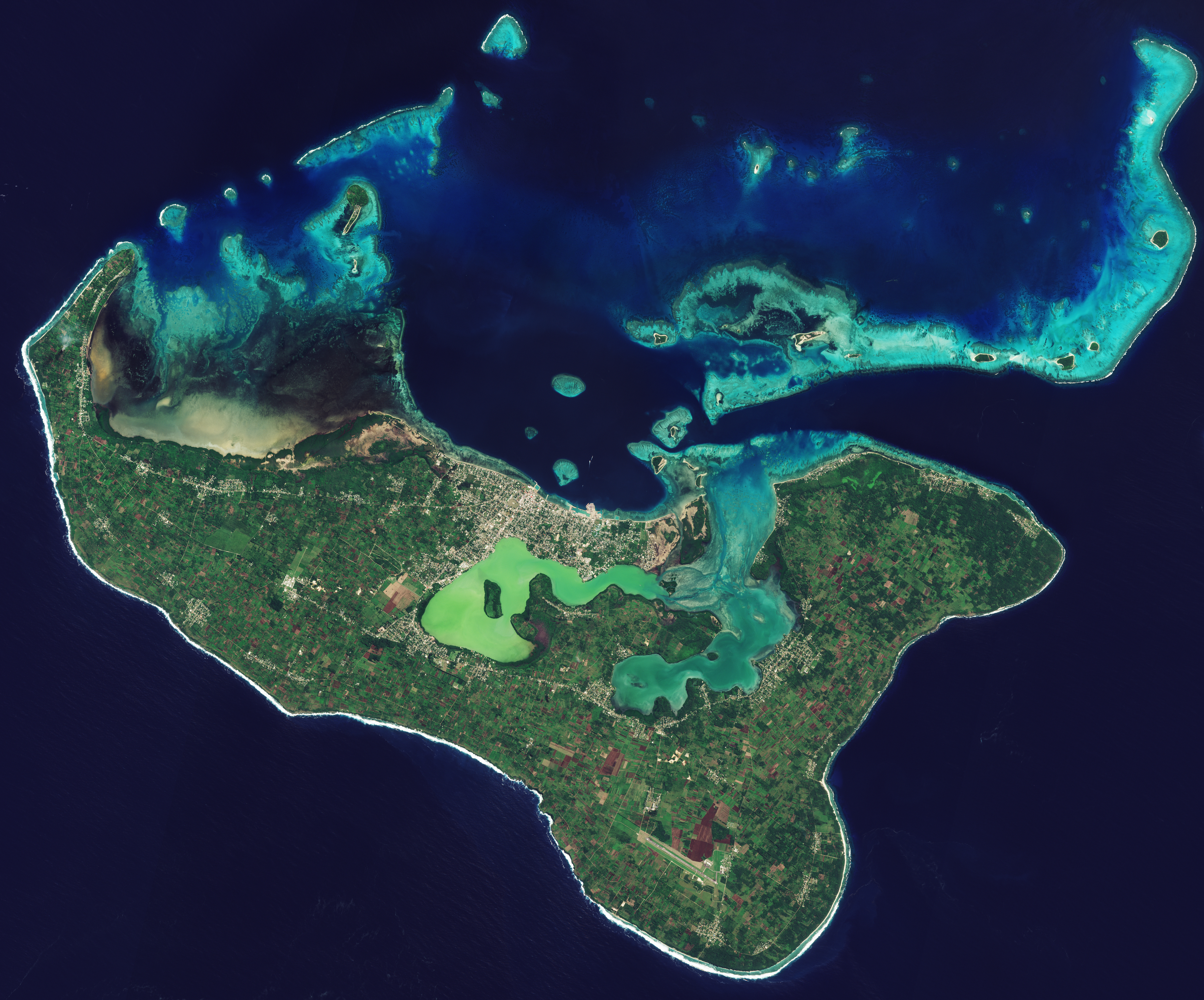 The island of Tongatapu and the nearby smaller islands – all part of the Kingdom of Tonga archipelago in the southern Pacific Ocean – are pictured in this Sentinel-2A image from 23 May. Tonga’s population is spread across 36 of Tonga’s 169 islands, but about 70% live on this main island. The capital, Nukuʻalofa, sits on the island’s north coast and along the Fanga’uta Lagoon. The lagoon’s mangroves provide an important breeding ground for fish and birds. Built on limestone, the island has fertile soil of volcanic ash from neighbouring volcanoes, and we can see how agricultural structures cover most of the island. Crops include root crops such as sweet potato and cassava, as well as coconuts, bananas and coffee beans. North of the island we can see many coral reefs. Although not part of its original mission objectives, scientists are experimenting with Sentinel-2 to monitor corals and detect coral bleaching – a consequence of higher water temperatures. Bleaching happens when algae living in the corals’ tissues, which capture the Sun’s energy and are essential to coral survival, are expelled owing to the higher temperature. The whitening coral may die, with subsequent effects on the reef ecosystem, and thus fisheries, regional tourism and coastal protection. The recent El Niño weather phenomenon has caused increased bleaching across the world’s corals, and scientists are finding Sentinel-2’s coverage helpful in monitoring this at reef-wide scales. This image is also featured on the Earth from Space video programme.